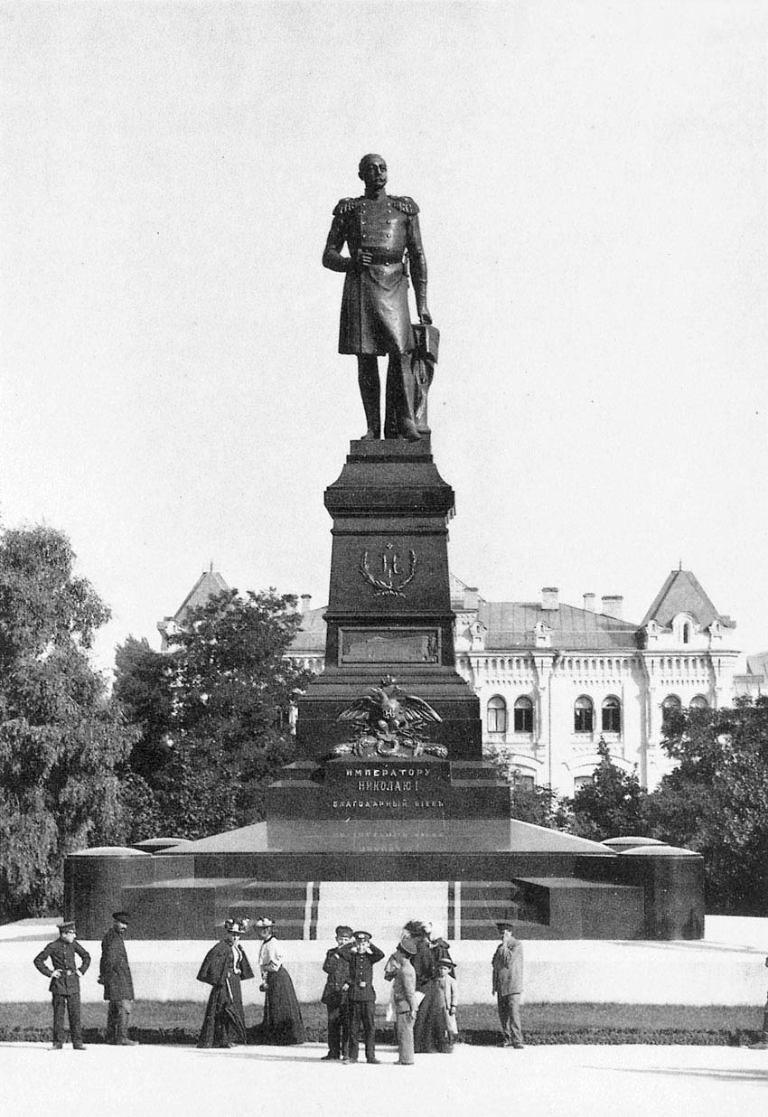 The monument of Russian emperor Nicholas I in Kiev